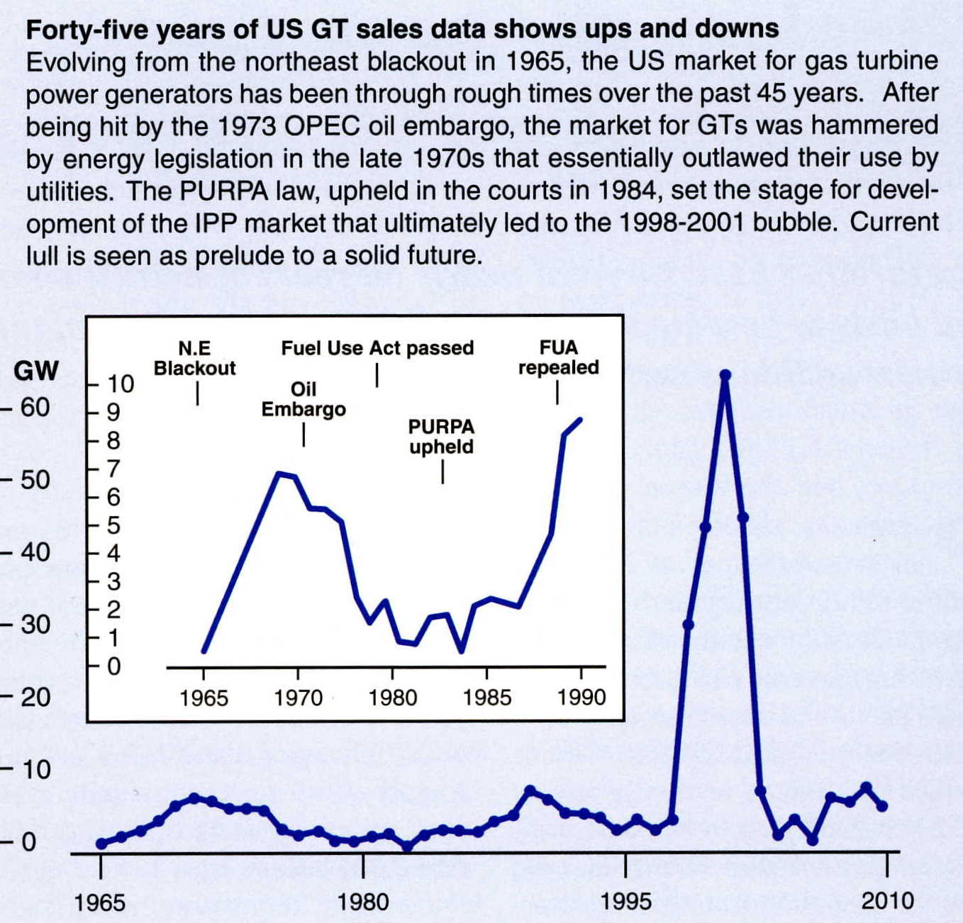 Gas Turbine Market data = from Gas Turbine World Magazine article written by editor, with permission of Gas Turbine World Magazine